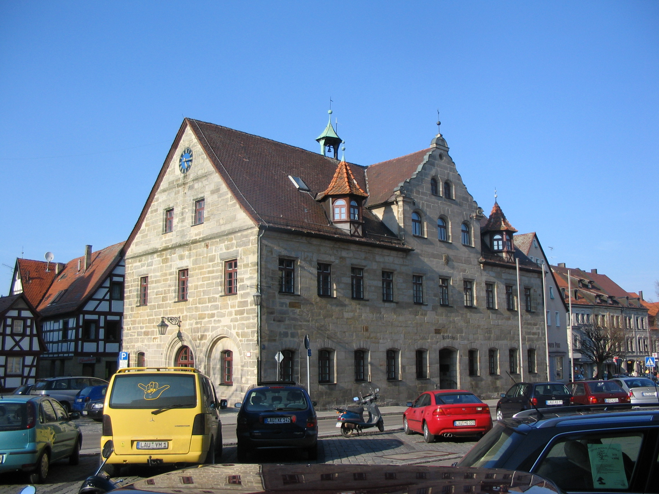 The city hall of Altdorf by Nuremberg, photo taken on April 3, 2005. Photo by User:Jarlhelm